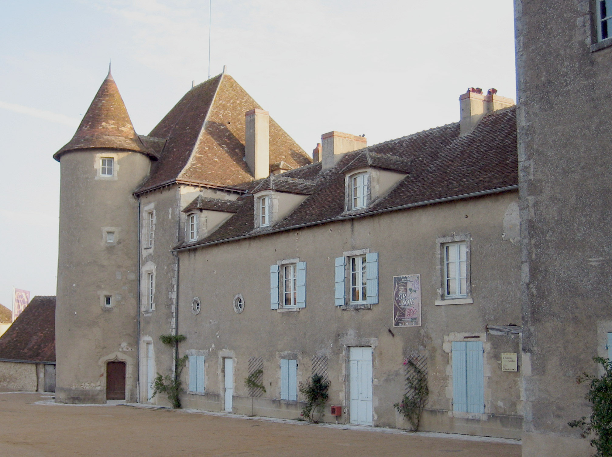 This is a picture taken by me of Naillac castle in Le Blanc, Indre, France. The two square dungeons are from XII-XIII century. It is now a museum.